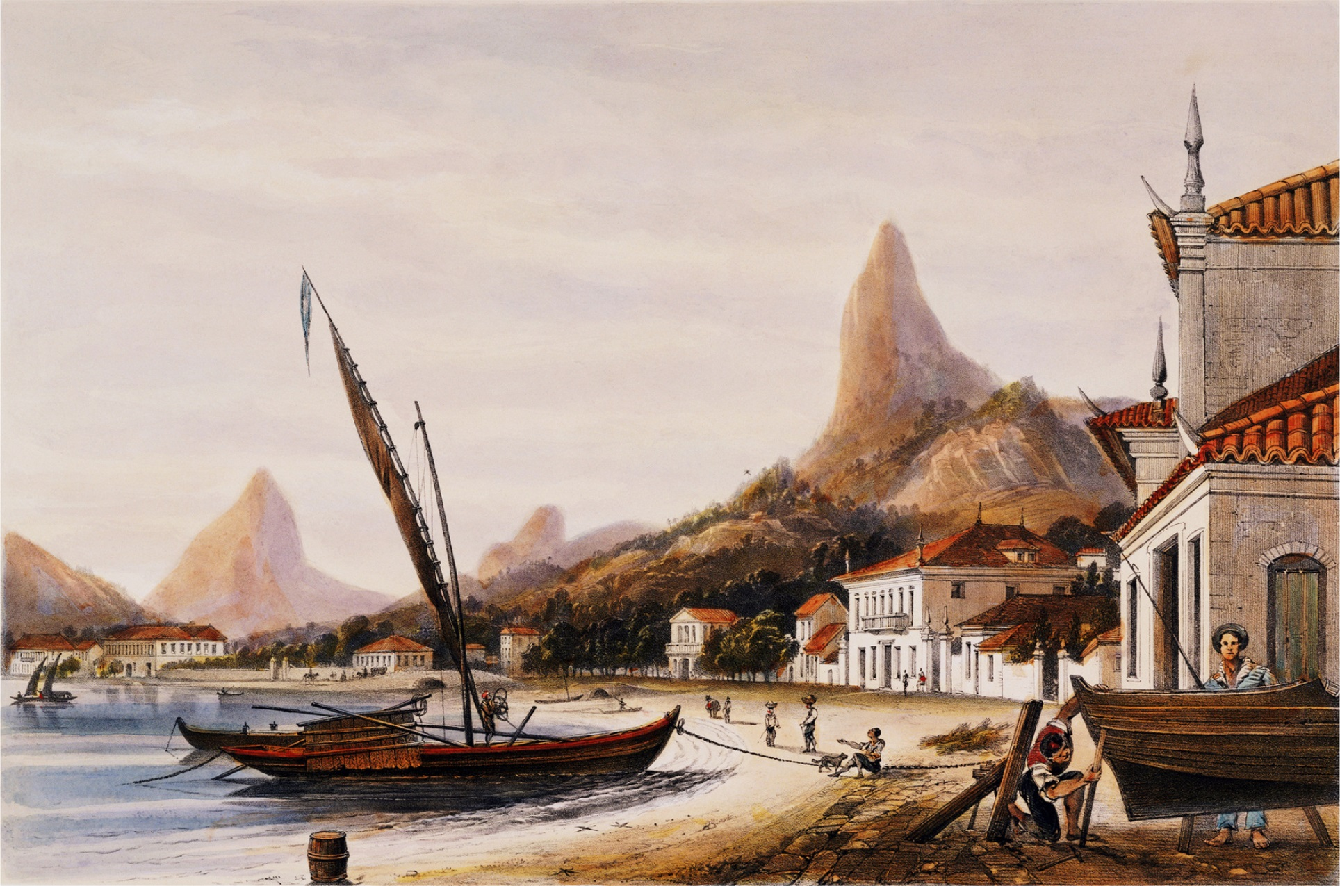 Botafogo Bay (Baía de Botafogo) — "Botafogo Bay, Suburbs Of Rio De Janeiro" — 1852. William Gore Ouseley.